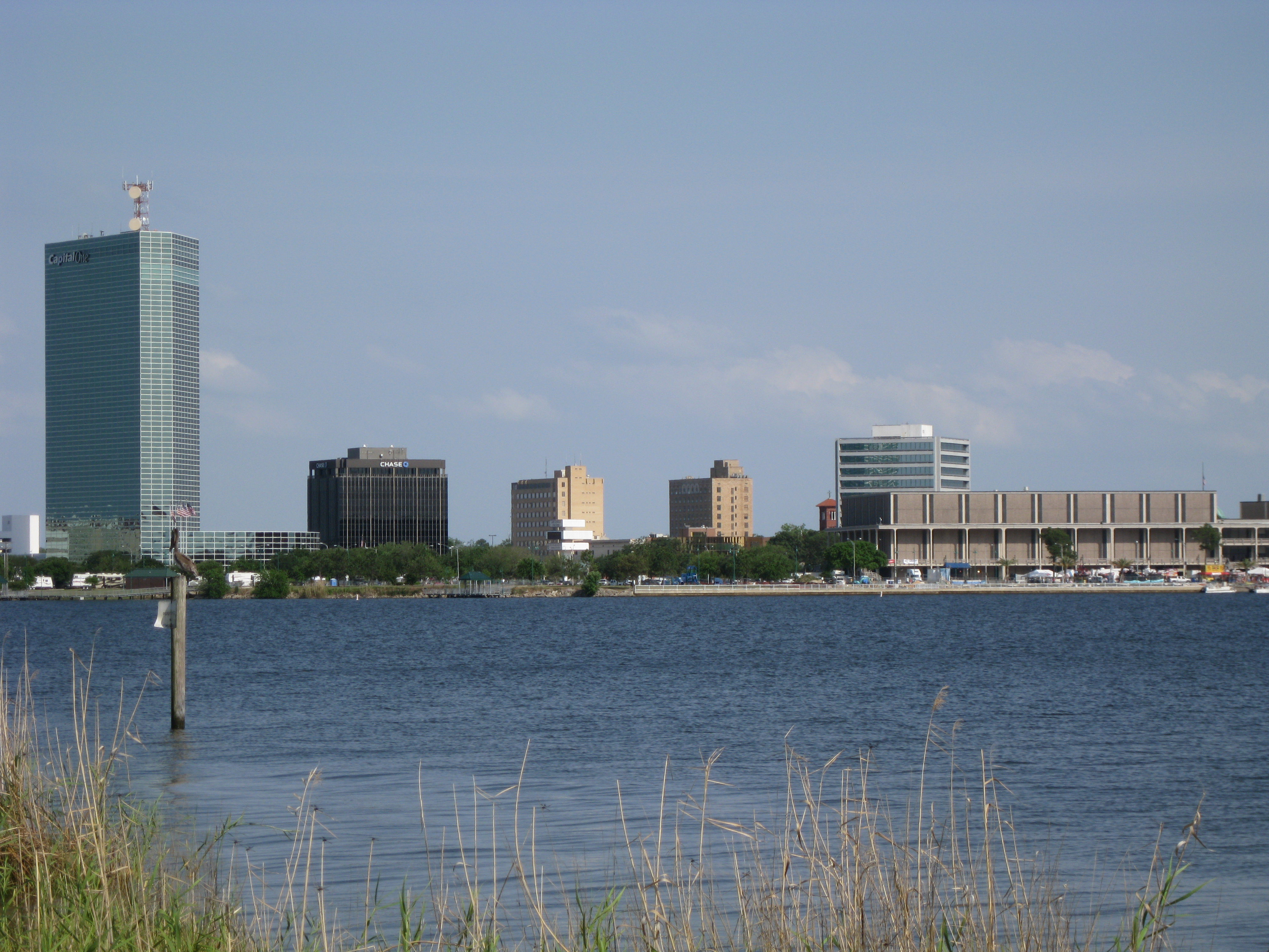 Downtown Lake Charles, Louisiana, during Contraband Days.